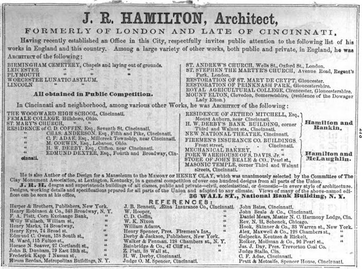 Advertisement for architect John R. Hamilton, published 1859, page 2 of 2